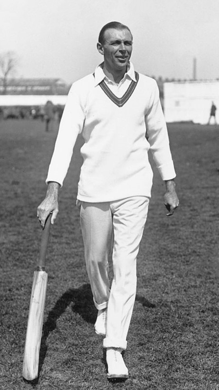 Australian cricketer Jack Morrison Gregory (1895 - 1973) during a match between Austalia and Leicestershire.